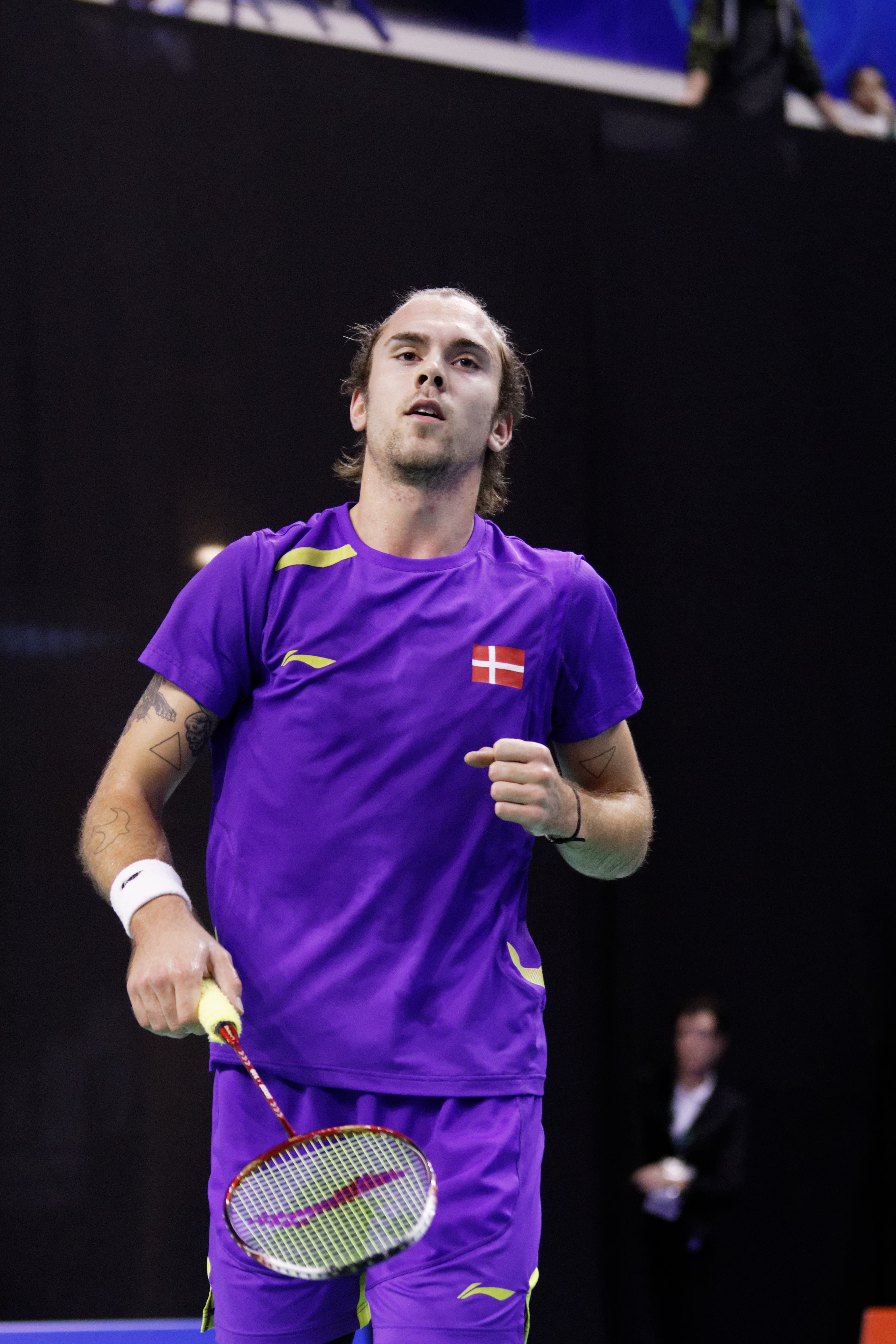 2013 French open. Men's singles eightfinal. Hans-Kristian Vittinghus vs Jan Ø. Jørgensen.